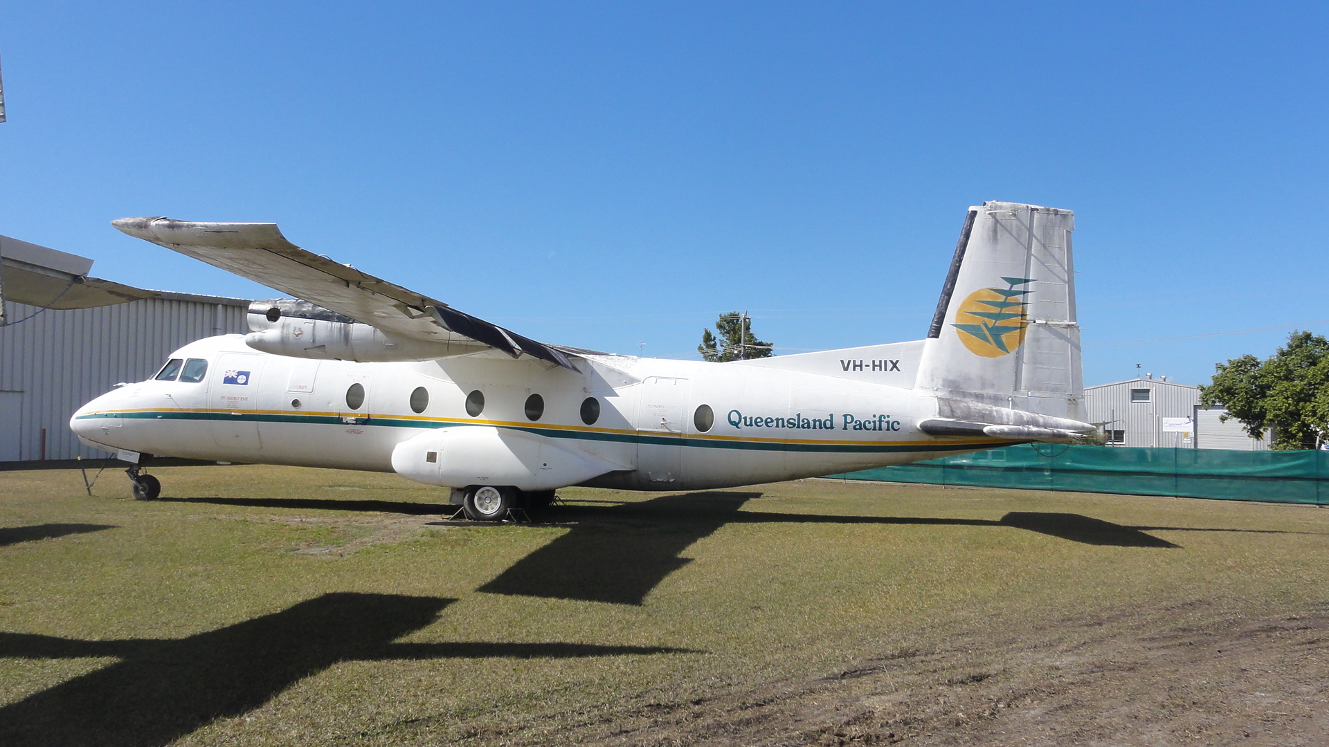 Image taken at Queensland Air Museum 6 August 2011.